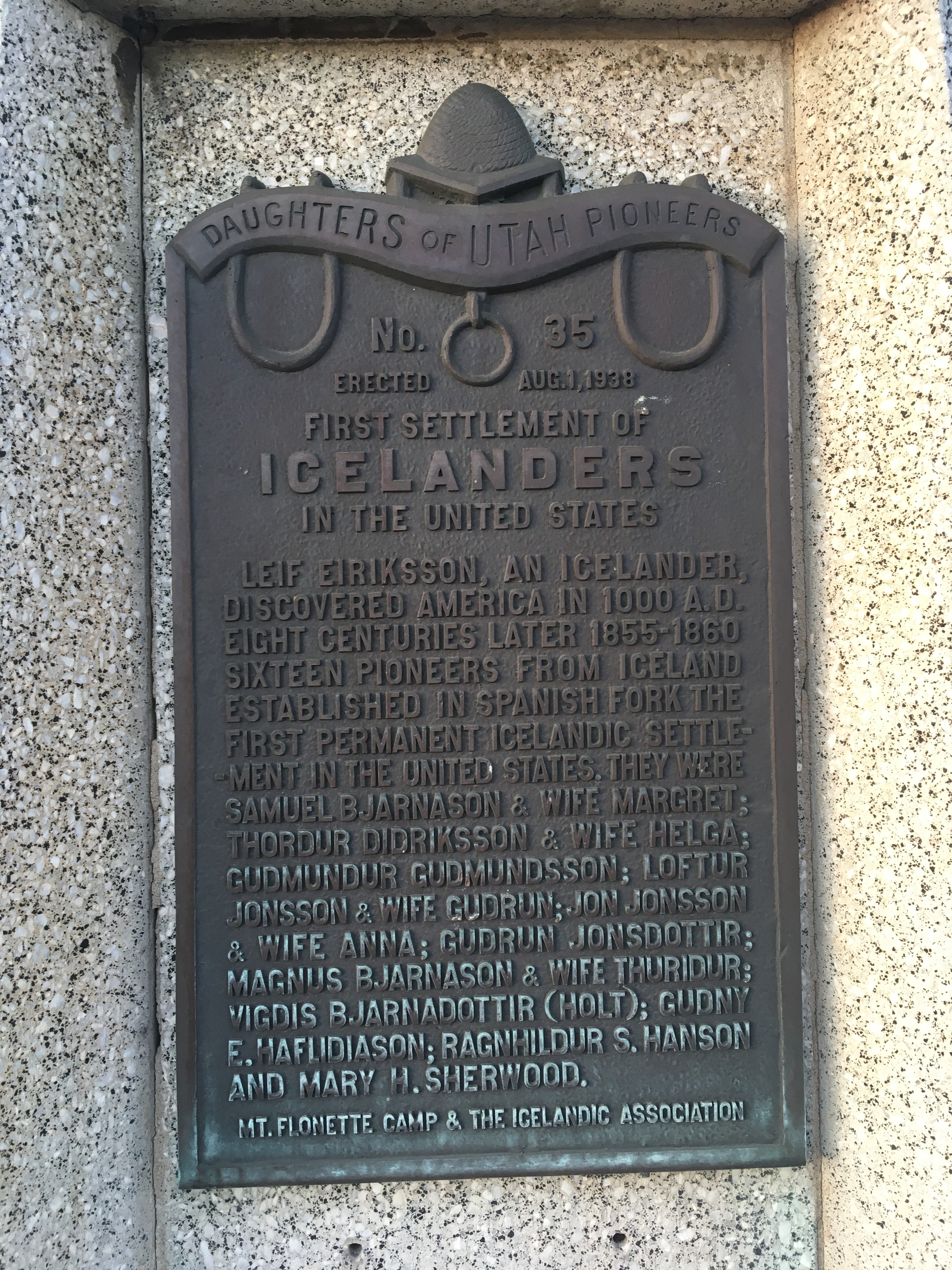 This plaque found on the lighthouse at the Icelandic monument in Spanish Fork lists the names of the first 16 Icelandic Settlers in Spanish Fork.